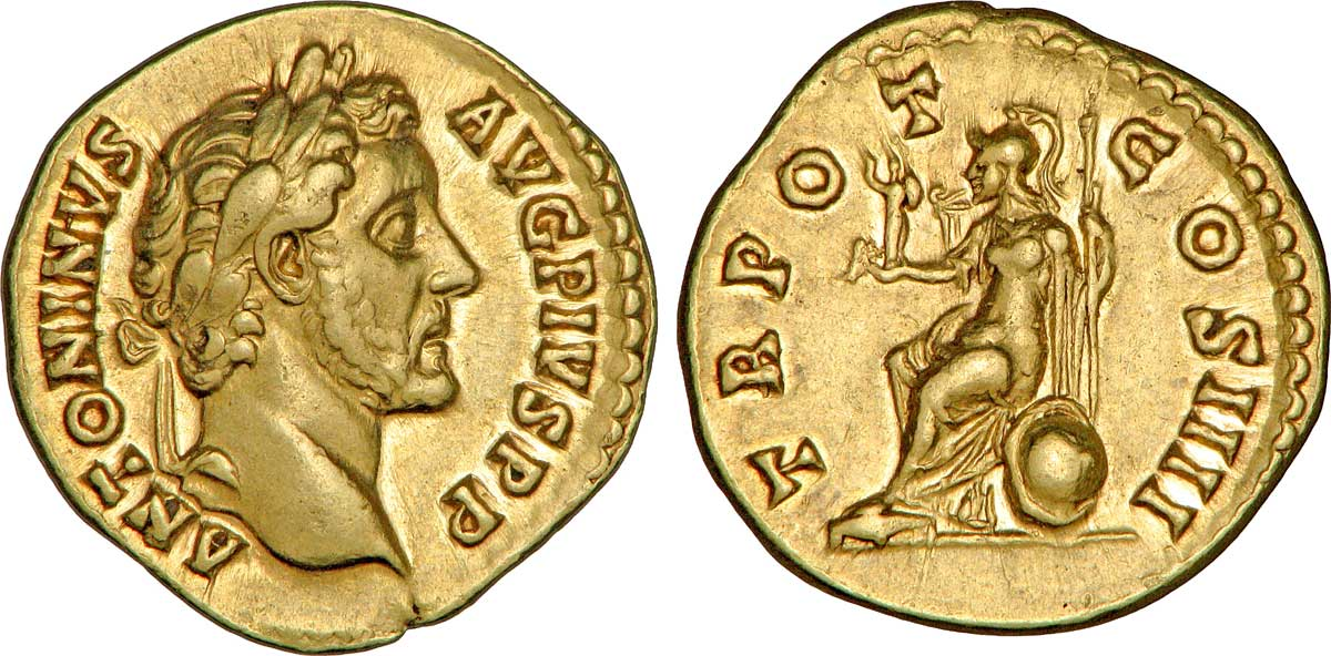 Aureus d'Antonin le Pieux Date : 145 Le revers fait peut-être référence à une statue cultuelle de Rome qui était déposée dans le temple de Vénus et de Rome dédicacé en 141, au début du règne. Rome, normalement nicéphore (qui tient la Victoire) porte ici le palladium. C’est la statuette votive qu’Énée aurait emportée de Troie et transportée dans le Latium. Associée Rome et le palladium, c’est revenir aux origines de la cité de Romulus dont le 900e anniversaire de la fondation (21 avril 753 avant J.-C.) sera célébré en 147 en liaison avec les decennalia d’Antonin.